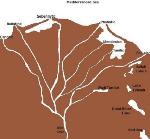 Personal drawing, based upon image found in The Exodus Enigma (1985) by Ian Wilson, page 46, London: Wiedenfeld & Nicolson.